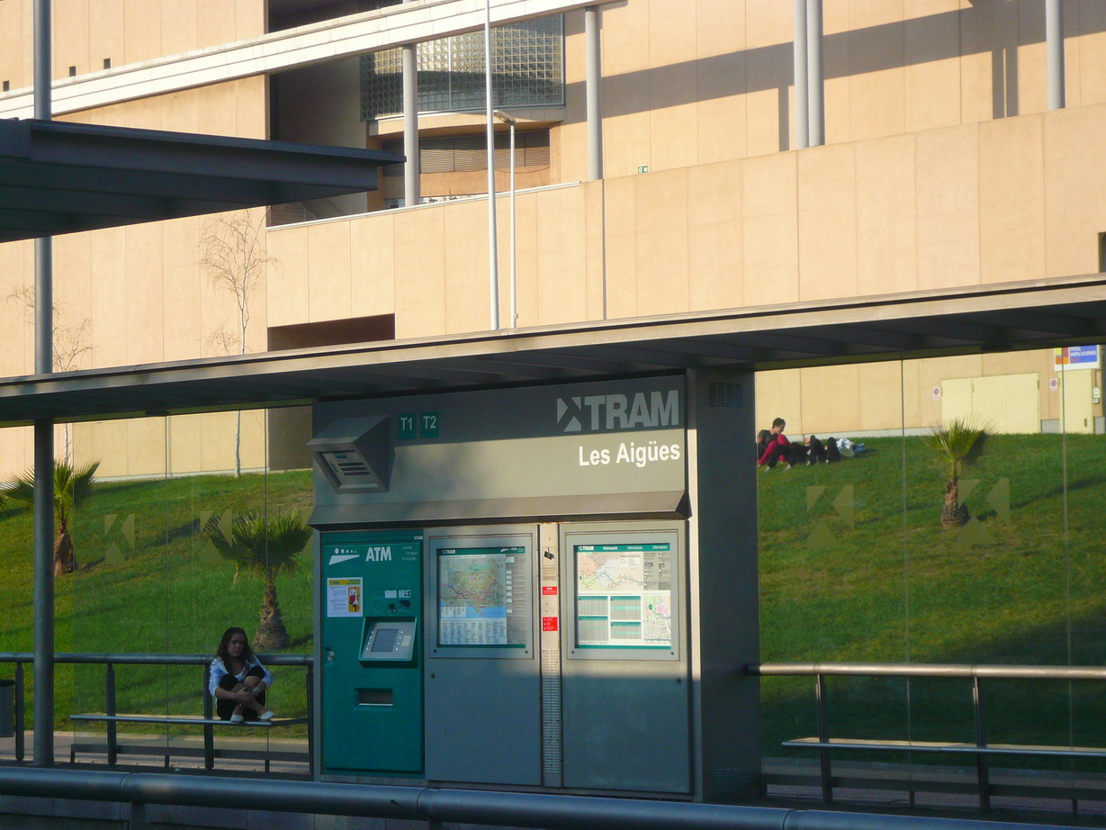 Les Aigües tram station, Cornellà de Llobregat, Baix Llobregat, Catalonia